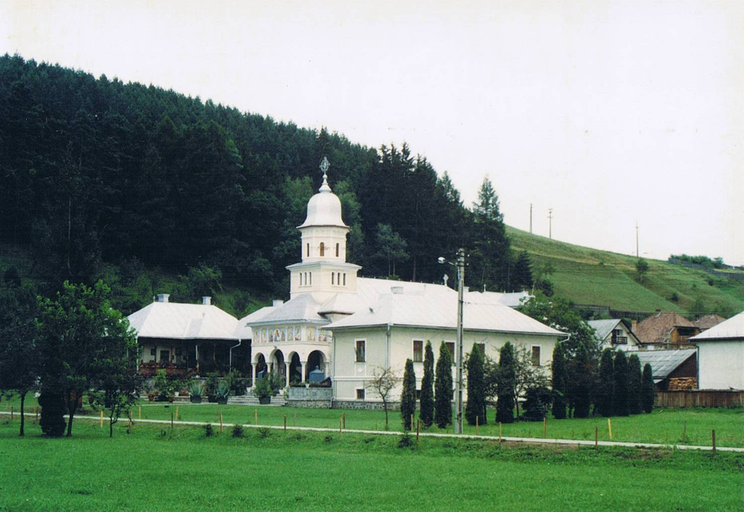 Topliţa, Harghita County, Romania. A monastery.